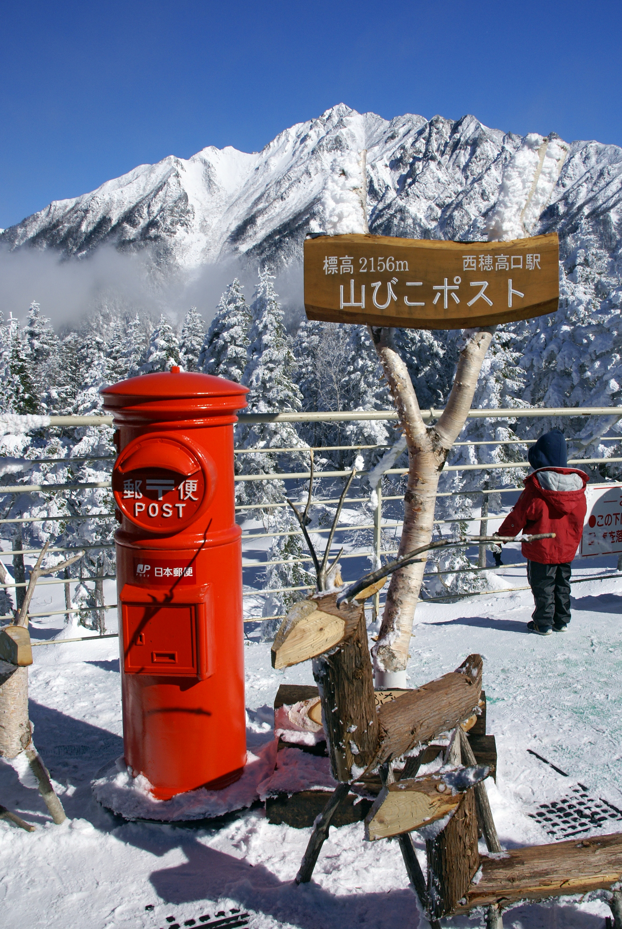 Yamabiko-Post in Takayama, Gifu prefecture, Japan